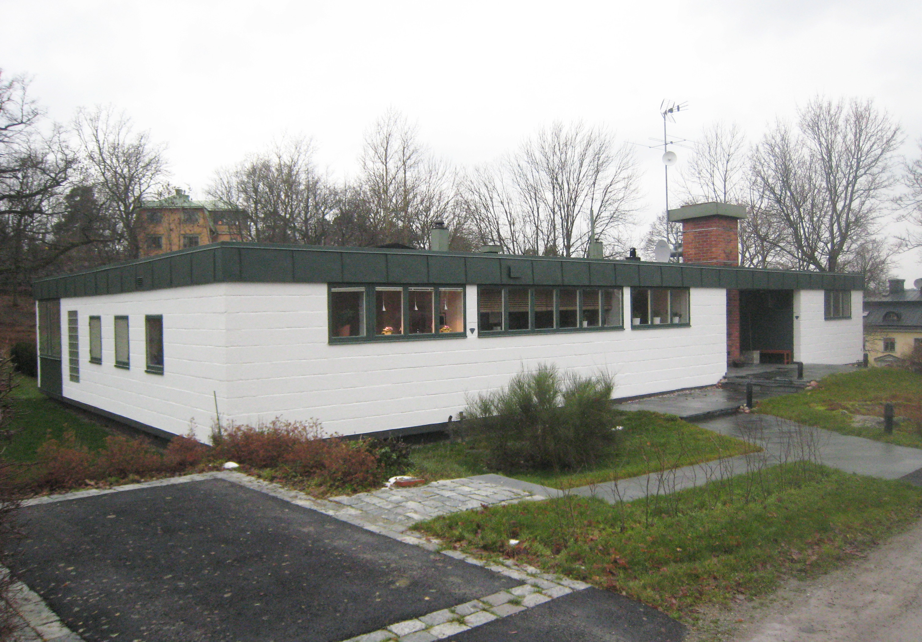 Villa Albion, Bengt Lindroos